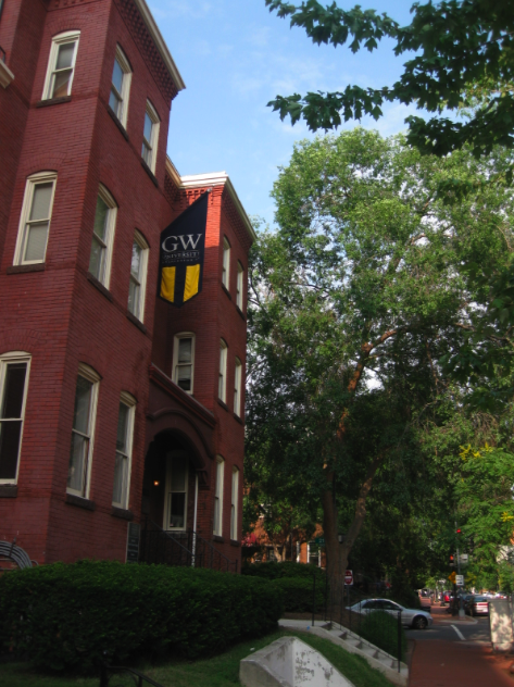 2100 F St houses NROTC and College of Professional Studies offices at the George Washington University.